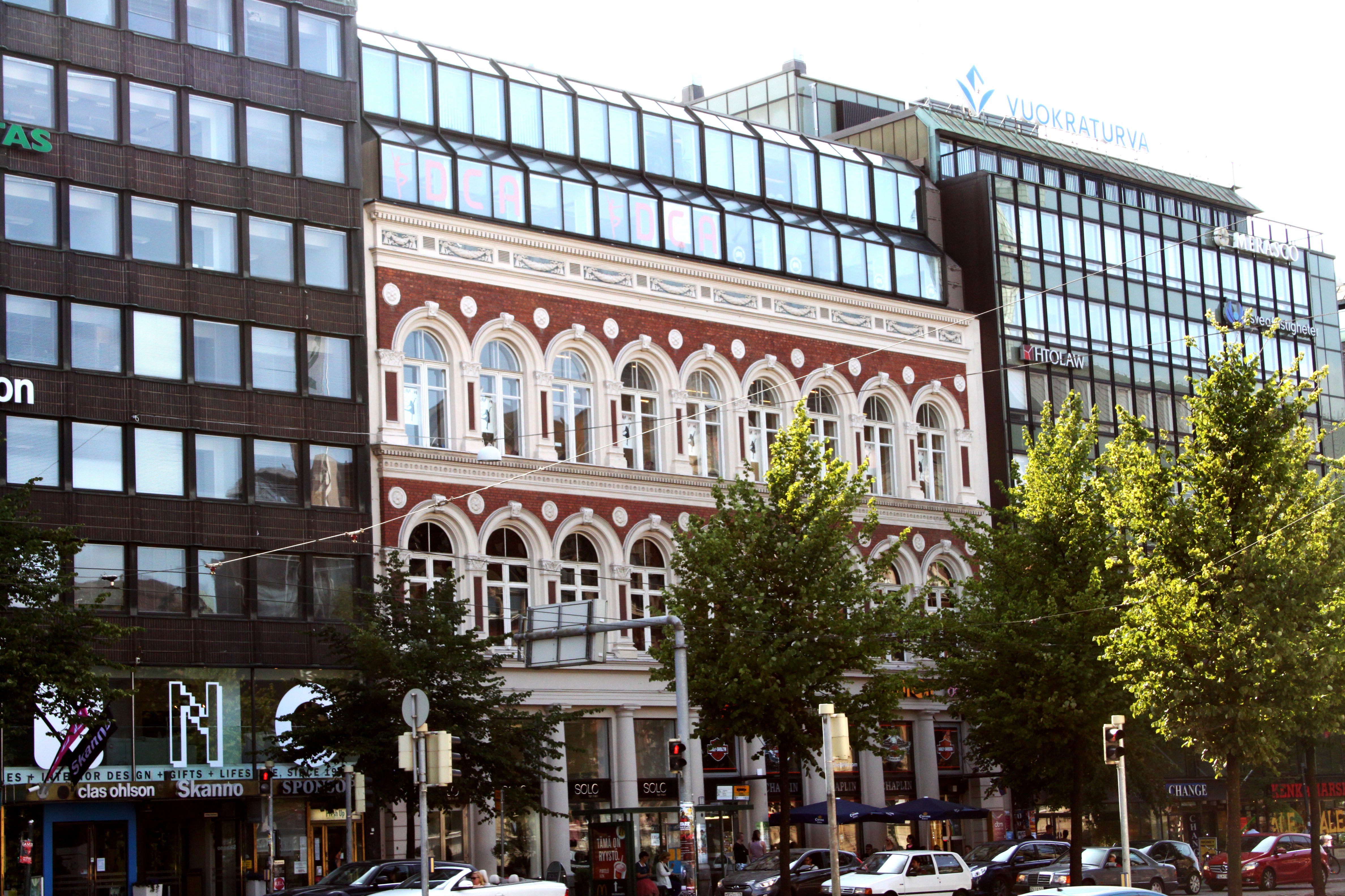 Mannerheimintie 6, Helsinki. ArchitectFrans Anatolius Sjöström, built 1870.